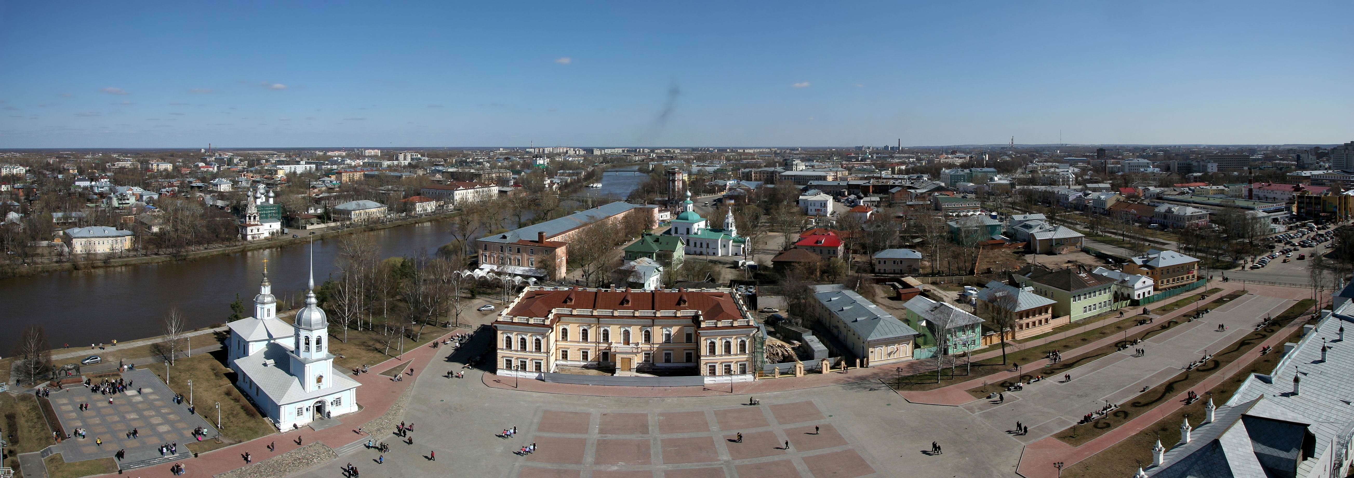 Panoramic view of Vologda, Russia